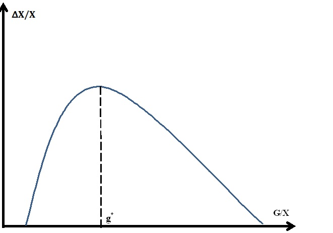 Armey–Rahn curve